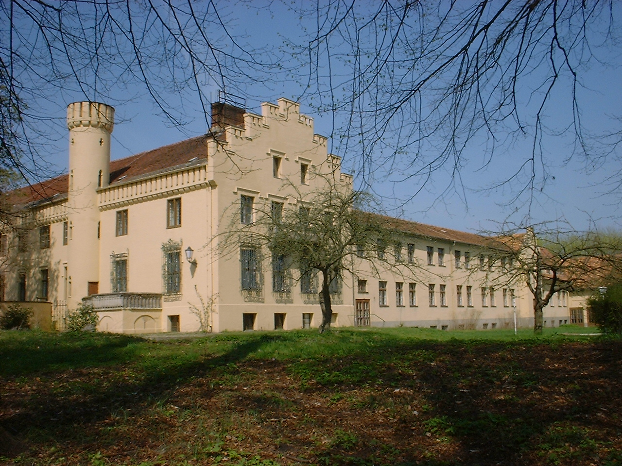 Petzow Castle (view from east) in Werder (Havel) in Brandenburg, Germany